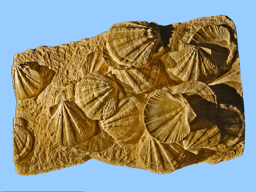 Gigantopecten latissimus from France. Miocene (abt. 20 Ma)